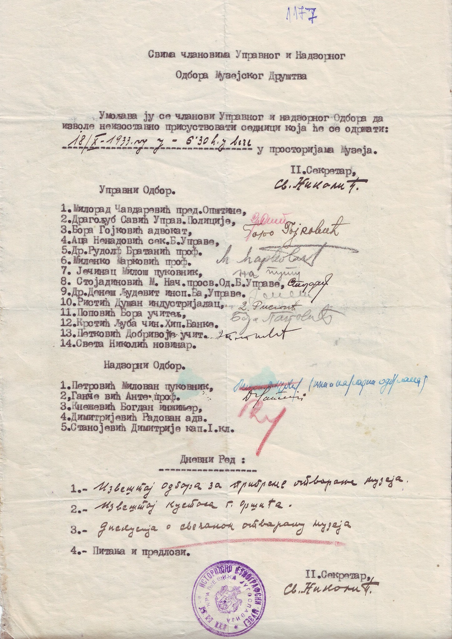 Founding Board of the National Museum in Nis from 1933rd